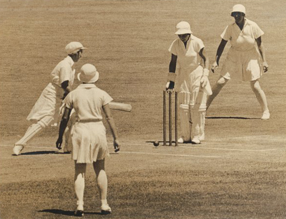 Description 'Women's Test Cricket. Anne Palmer (NSW) bowled, with Spear, Snowball and Partridge (England), 2nd Women's Test match in Sydney 1935.' is incorrect as Palmer was out lbw and stumped in that Test!